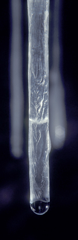 Soda straw in Rat's Nest Cave, Canada.